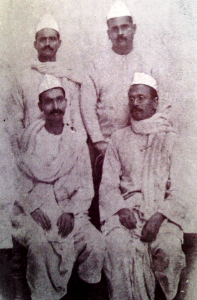 Dr Rajendra Prasad with his close colleague & nationalist Bihar Vibhuti Dr. Anugrah Narain Sinha taken during 1917 Gandhian Sataygraha at Bihar. This picture was taken in 1917 when Prasad & Sinha accompanied Mahatama Gandhi in Champaran and became incharge there. Historic Picture of the eminent public figures taken during 1917 MK Gandhi's famous Satyagraha movement of 1917 in Bihar.